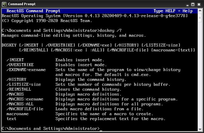 doskey command on ReactOS-0.4.13